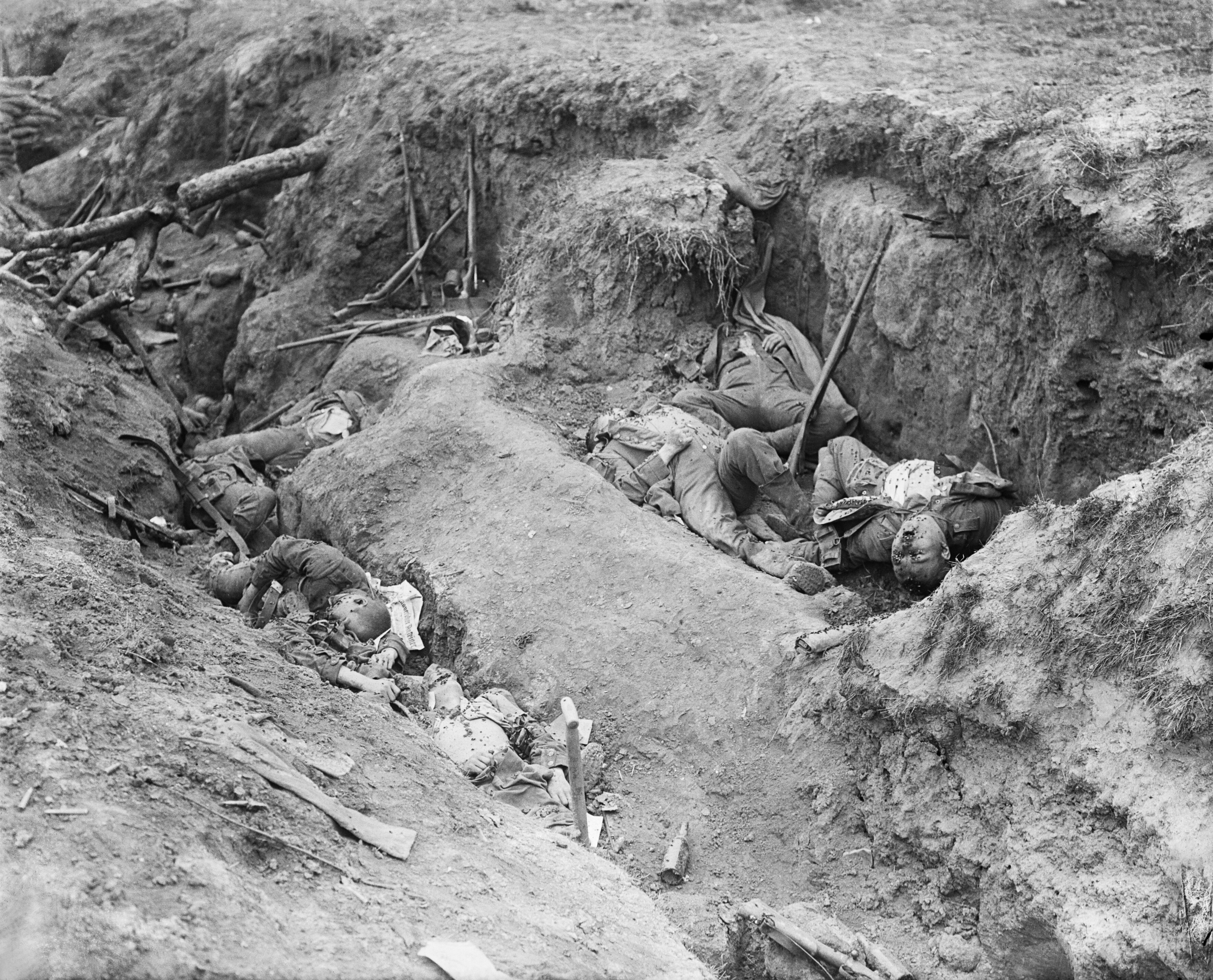 The Battle of the Somme, July-november 1916 Dead German soldiers in a captured German trench. Near Ginchy. August 1916.